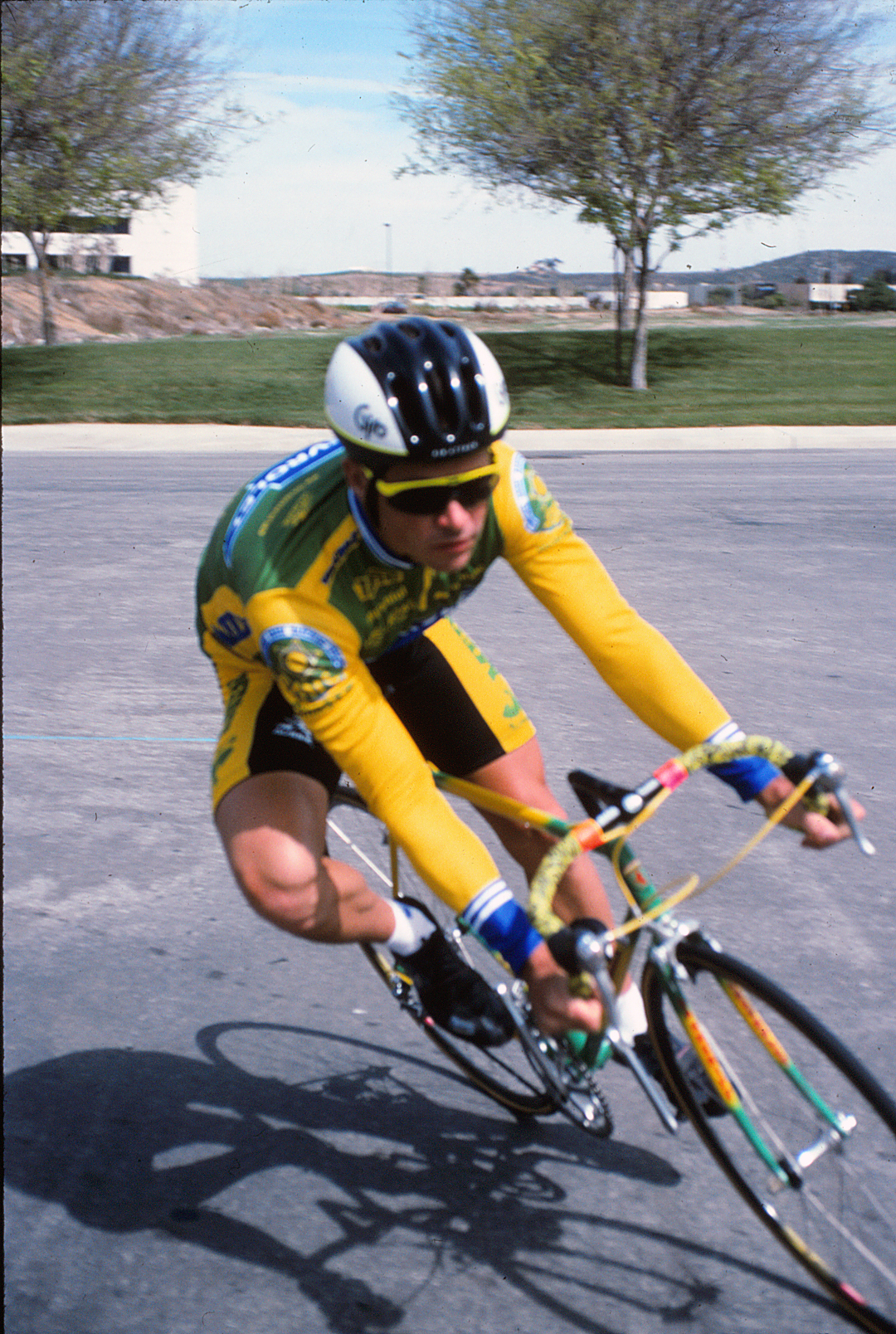 Jeff Pierce demonstrates turning and cornering techniques in "John Howard's Lessons in Cycling Video" produced by New & Unique Videos of San Diego, California, 1991